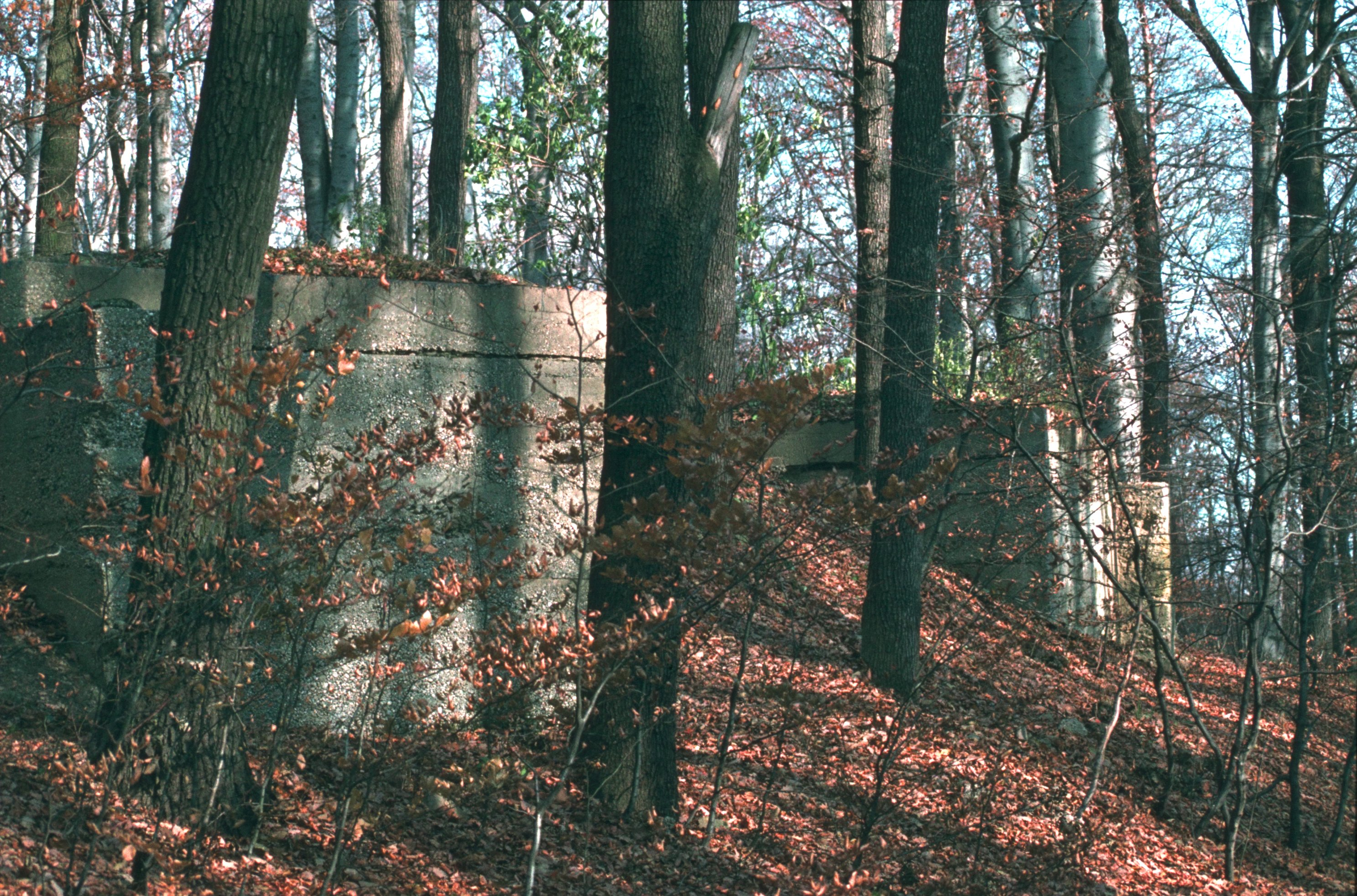 Remains of a secondary sentry (or gasoline storage) bunker in the system of the Gaugefechtsstand Wien (Ottakring, Vienna)